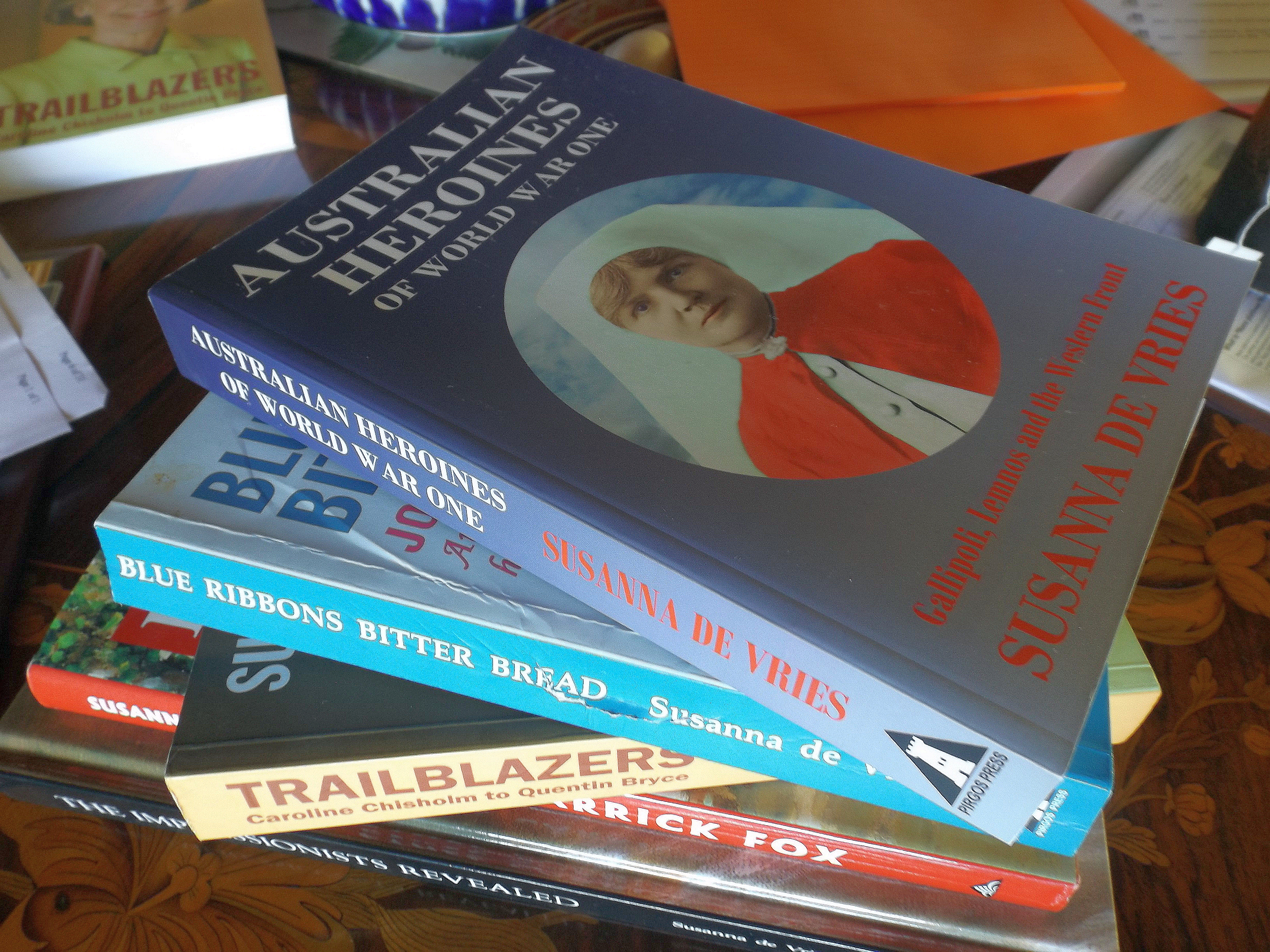 Photo of pile of books by writer Susanna de Vries.